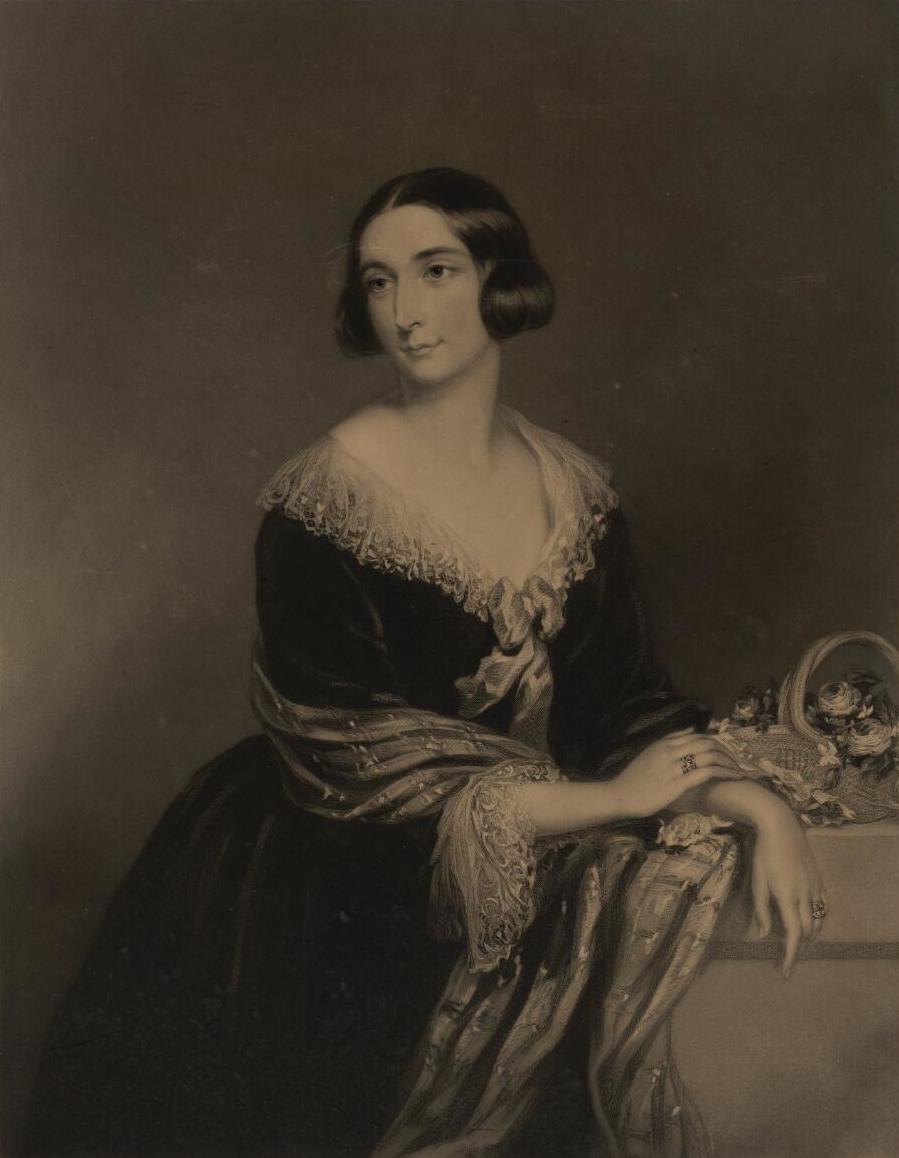 A portrait from the Welsh Portrait Collection at the National Library of Wales. Depicted person: Lady Charlotte Guest – Welsh translator and business woman